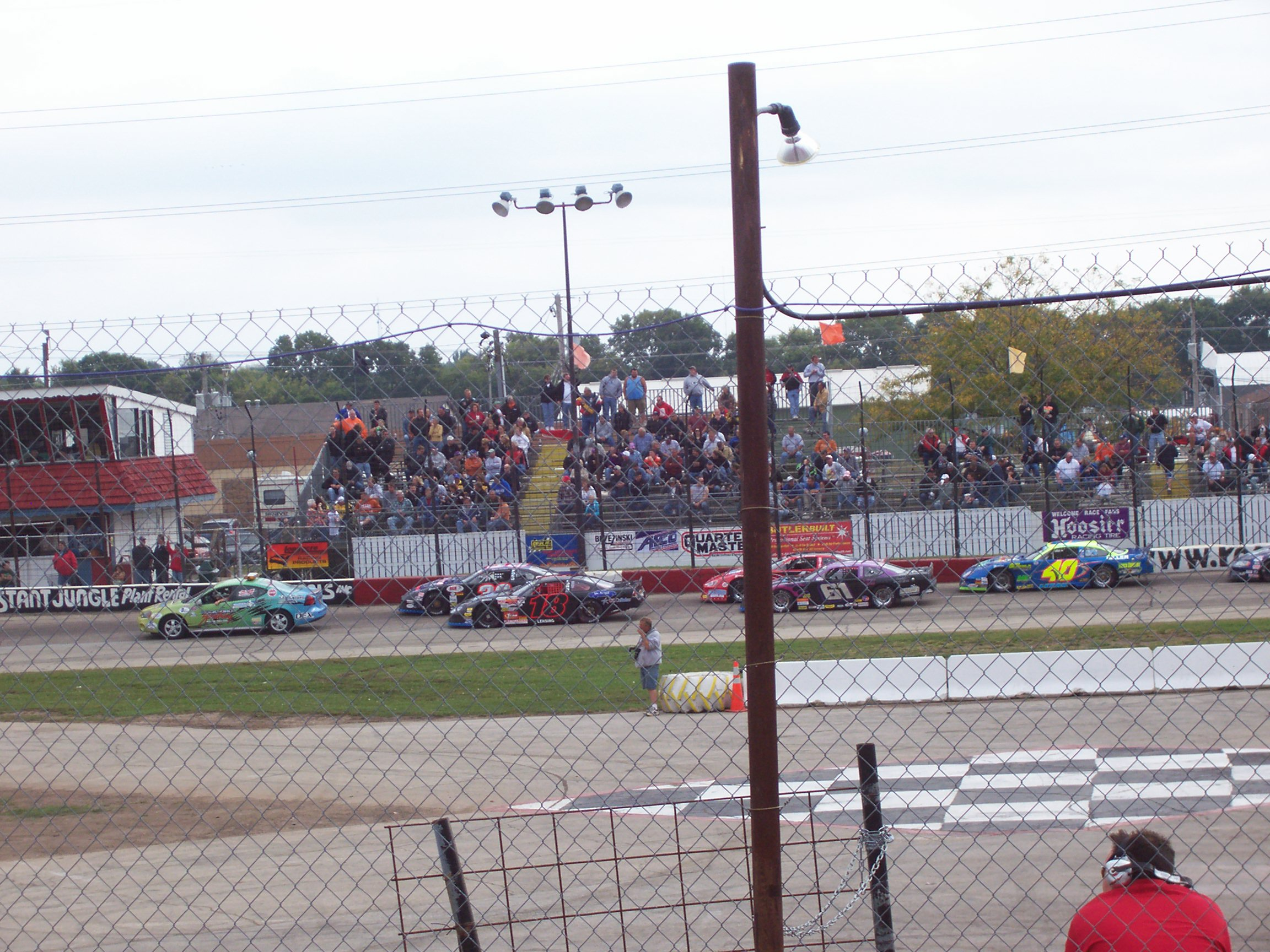 The pace car leads the field before the start of the 2008 National Short Track Championships at Rockford Speedway.